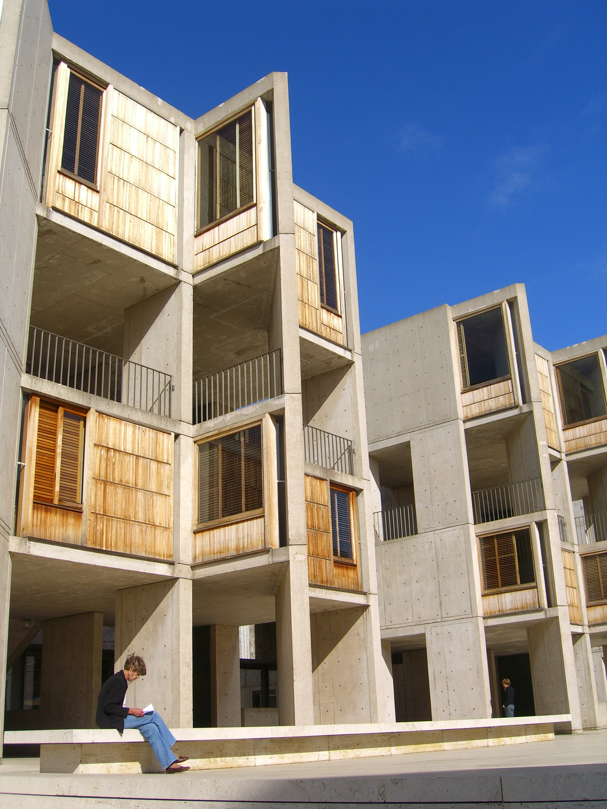 Concrete and teak facades — Salk Institute for Biological Studies, La Jolla, California